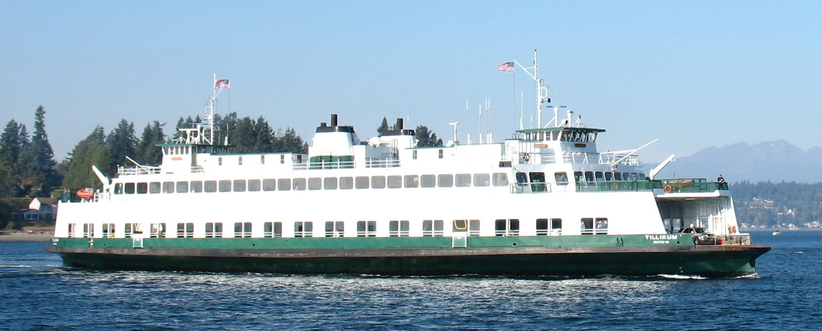 Washington State Ferries MV Tillikum off Fauntleroy ferry terminal, Seattle.